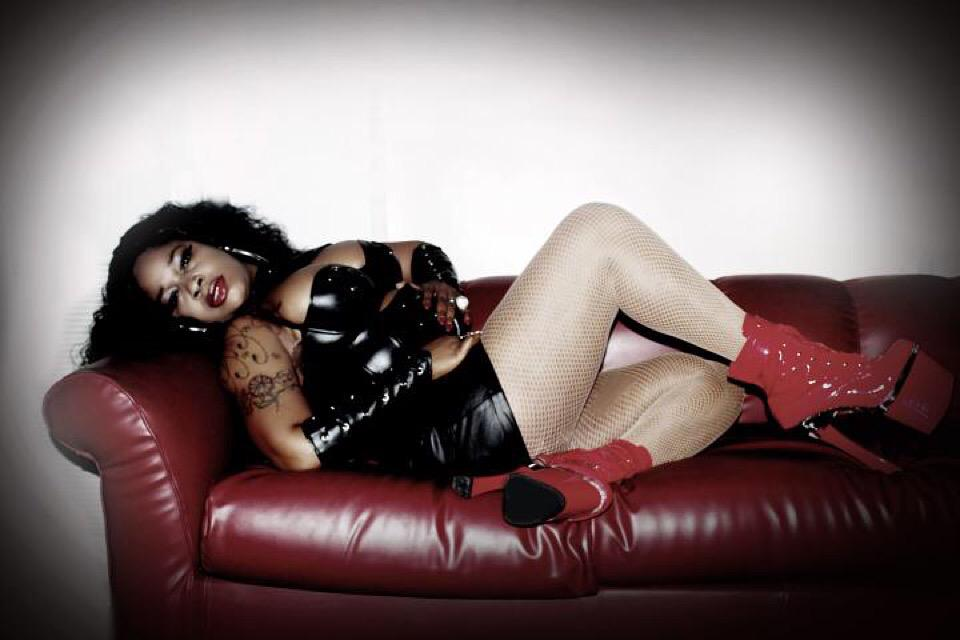 Afro Candy poses in black leather corset and red boots lying on a sofa.